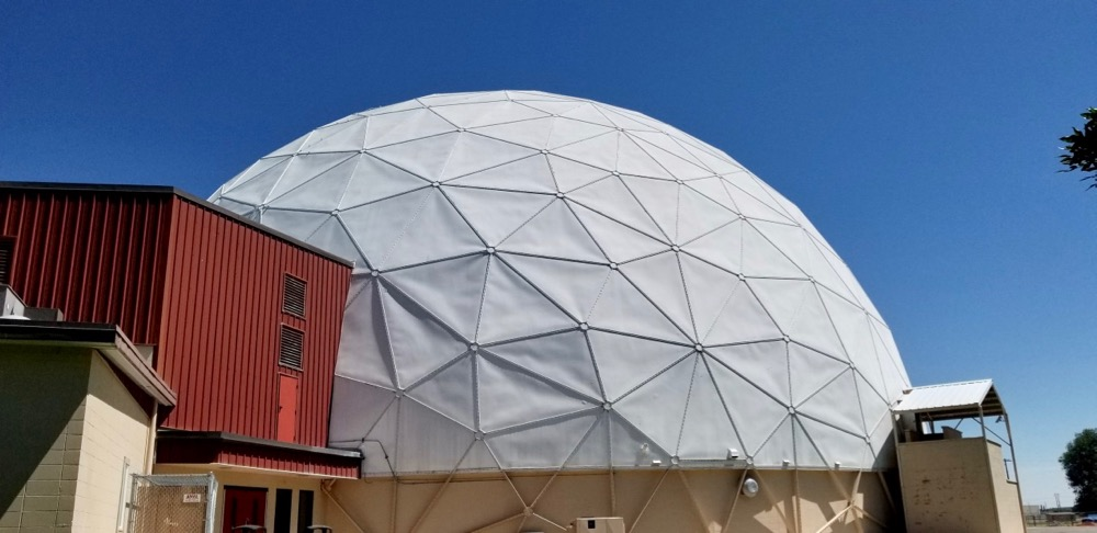 Baker AFS FPS-35 Radome Repurposed as a Gym at Payette High School, Payette ID, photo by John Stanton 22 Jul 2017